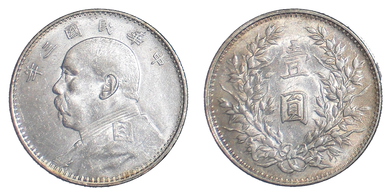 China-1Yuan-1914